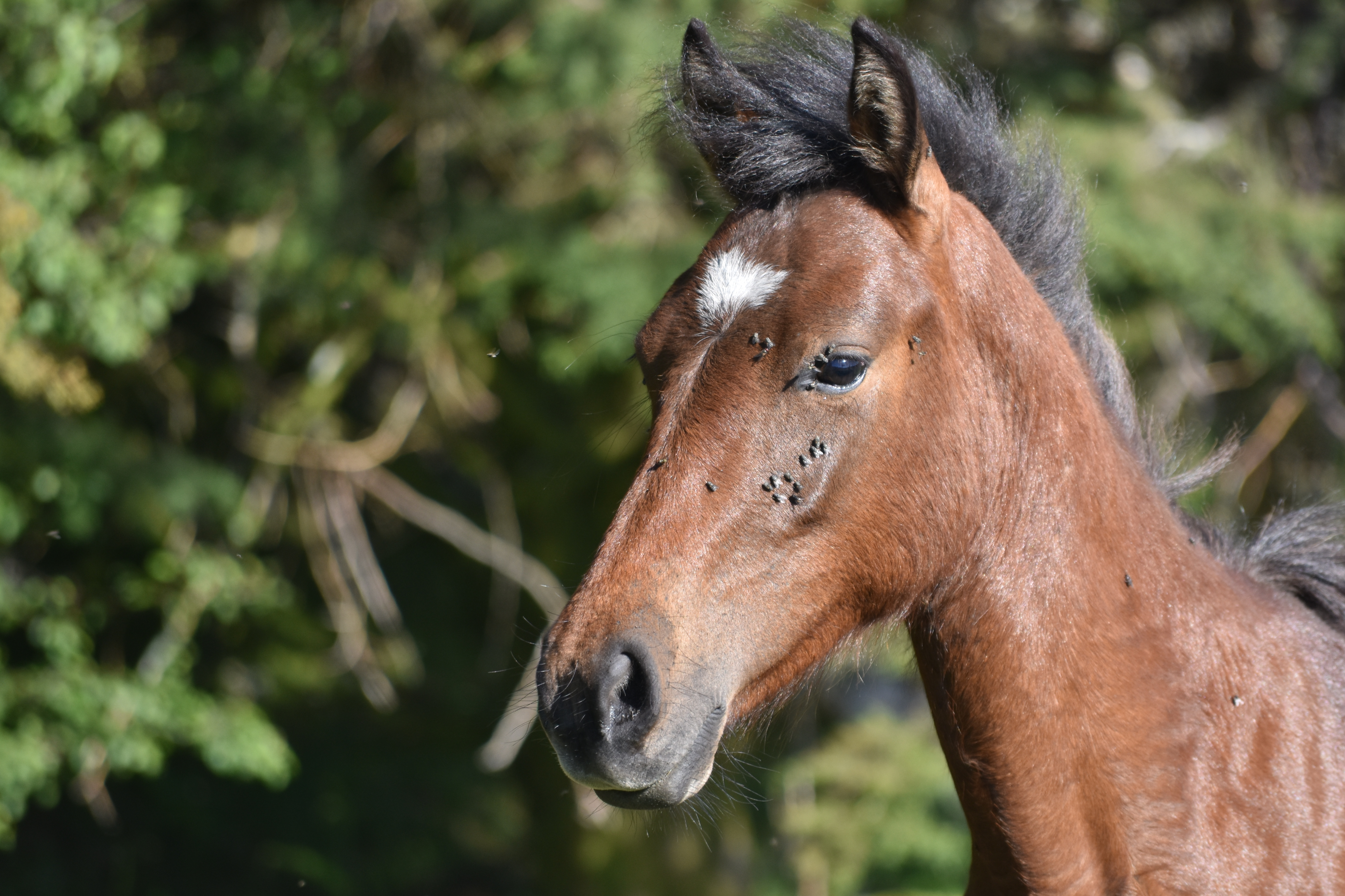 The garrano is a portuguese horse breed. They can be found in freedom, roaming the northern mountain ranges of Portugal. This one was photographed in Paredes de Coura.